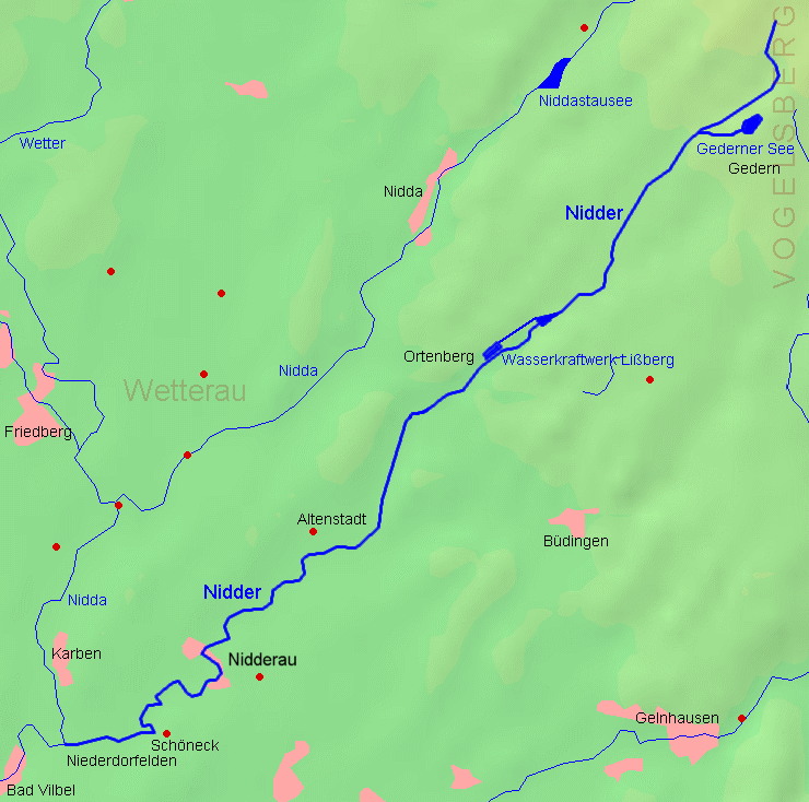 Map of the Nidder